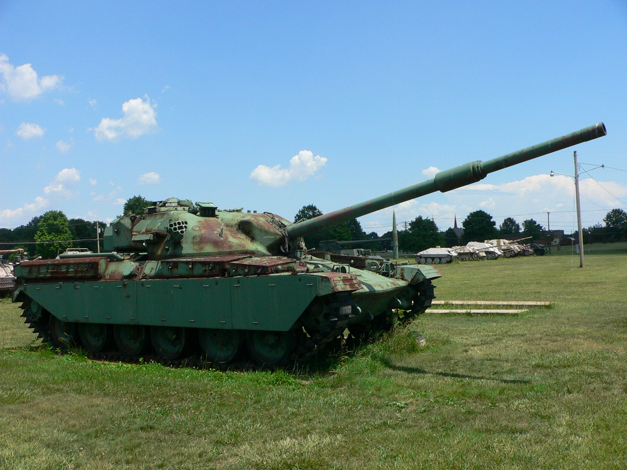 Picture taken by myself, Mark Pellegrini, at the United States Army Ordnance Museum (Aberdeen Proving Ground, MD) on June 12, 2007.